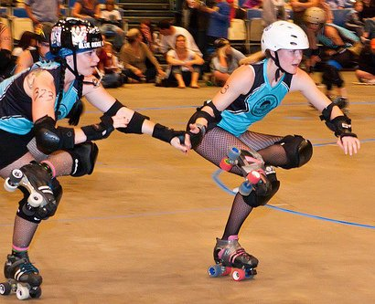 Blue Ridge Rollergirls doing yoga on skates during pre-bout warmup.